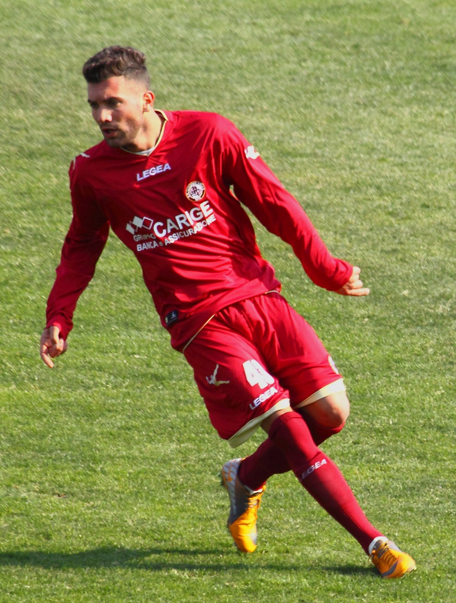 Mirko Bigazzi Livorno's player 2012/2013